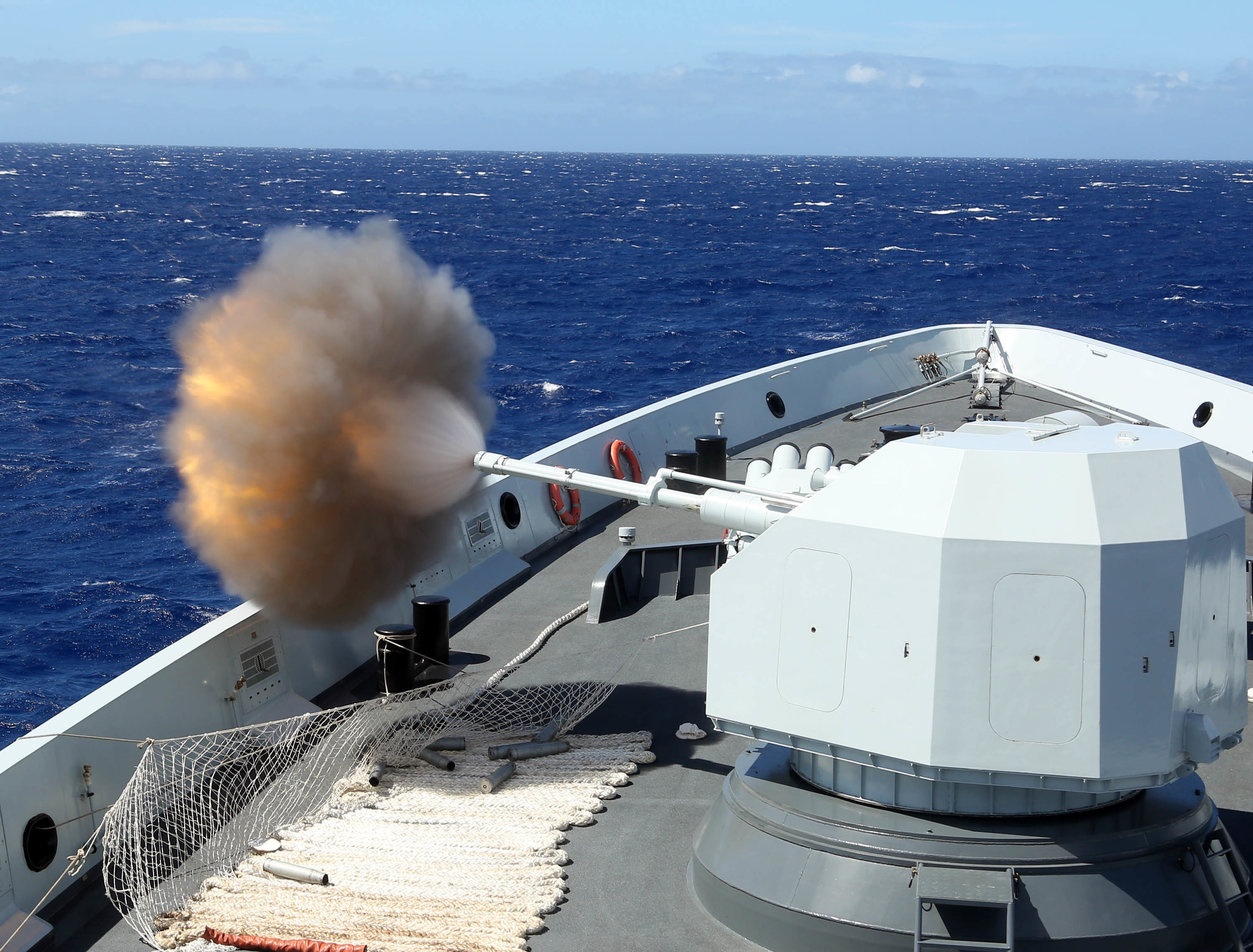 160717-N-MV764-001 PACIFIC OCEAN (July 17, 2016) Chinese Navy multi-role frigate Hengshui (572) fires the main gun during a gun exercise at Rim of the Pacific 2016. Twenty-six nations, more than 40 ships and submarines, more than 200 aircraft and 25,000 personnel are participating in RIMPAC from June 30th to August 4th, around the Hawaiian Islands and Southern California. As the largest international maritime exercise in the world, RIMPAC provides a unique training opportunity that helps participants foster and sustain the cooperative relationships that are critical to ensuring the safety of sea lanes and security on the world's oceans. RIMPAC 2016 is the 25th exercise in the series that began in 1971. (Chinese navy photo by Zeng Xingjian) Unit: Commander, U.S. 3rd Fleet DVIDS Tags: china; gunnery; rimpac